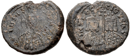 BULGARIA, First Empire. Petr I, with Irina (Maria Lakapena). 927-969. PB Seal (20mm, 7.36 g, 12h). Facing bust of Christ Pantokrator / Half-length facing busts of Petr and Irina, holding patriarchal cross between them. Iordanov Type III.3Ав, 95; Youroukova & Penchev 10. VF.